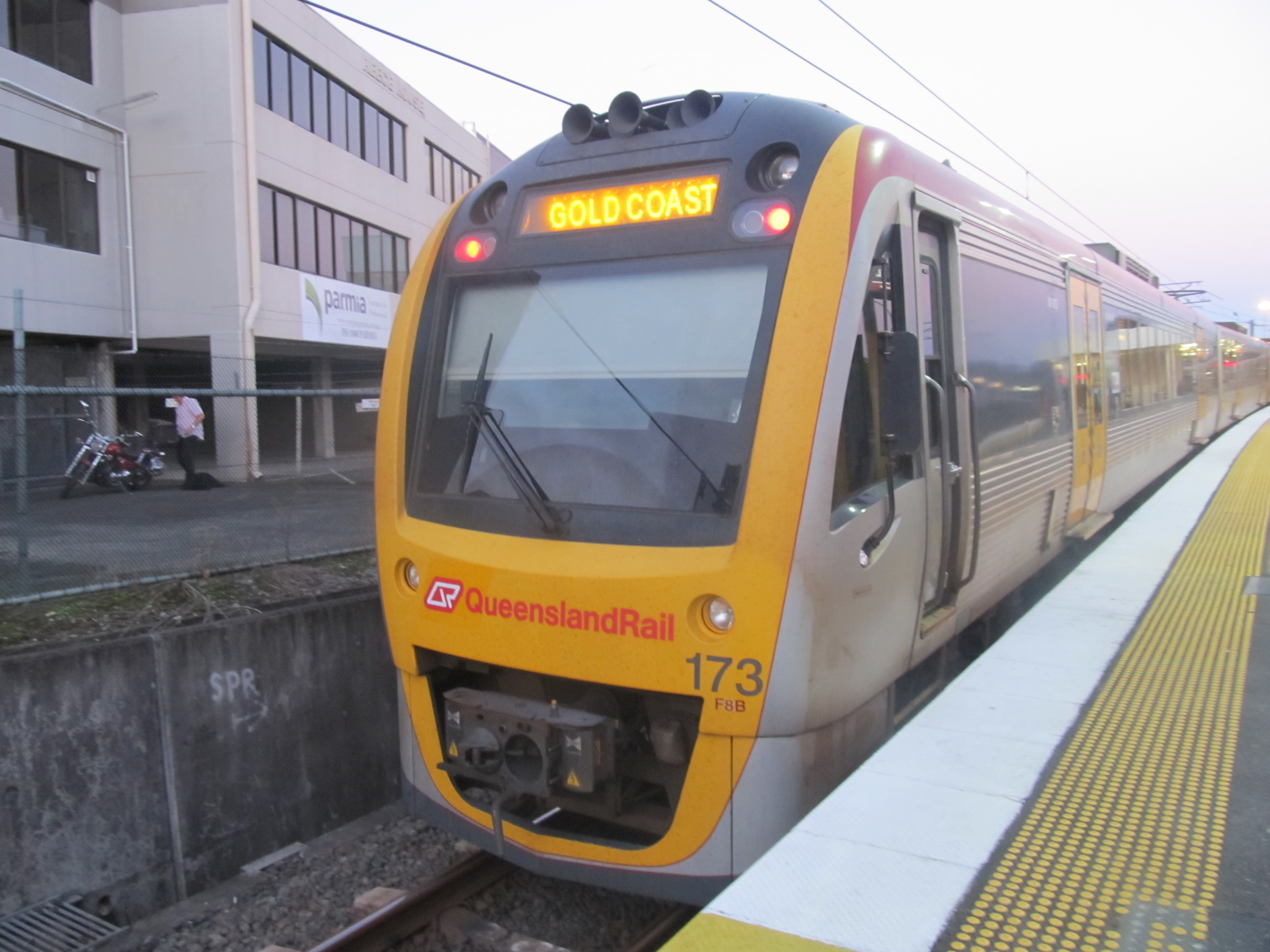 Queensland Rail Interurban Multiple Unit 173 at Beenleigh for Gold Coast